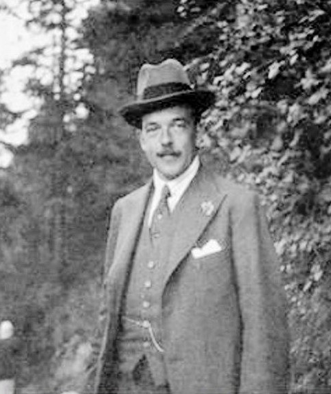 photograph taken hours before the kings death